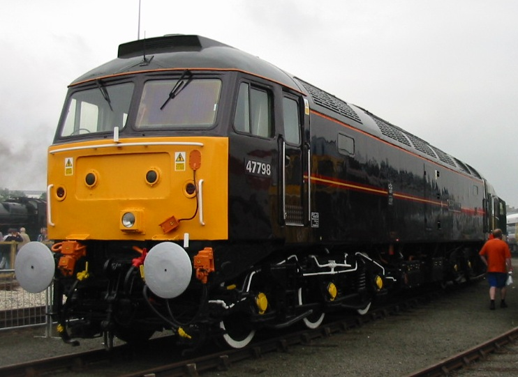 Former Royal locomotive Class 47 Prince William, owned by EWS. Photographed at the Rail 200 Railfest at the National Railway Museum in York.